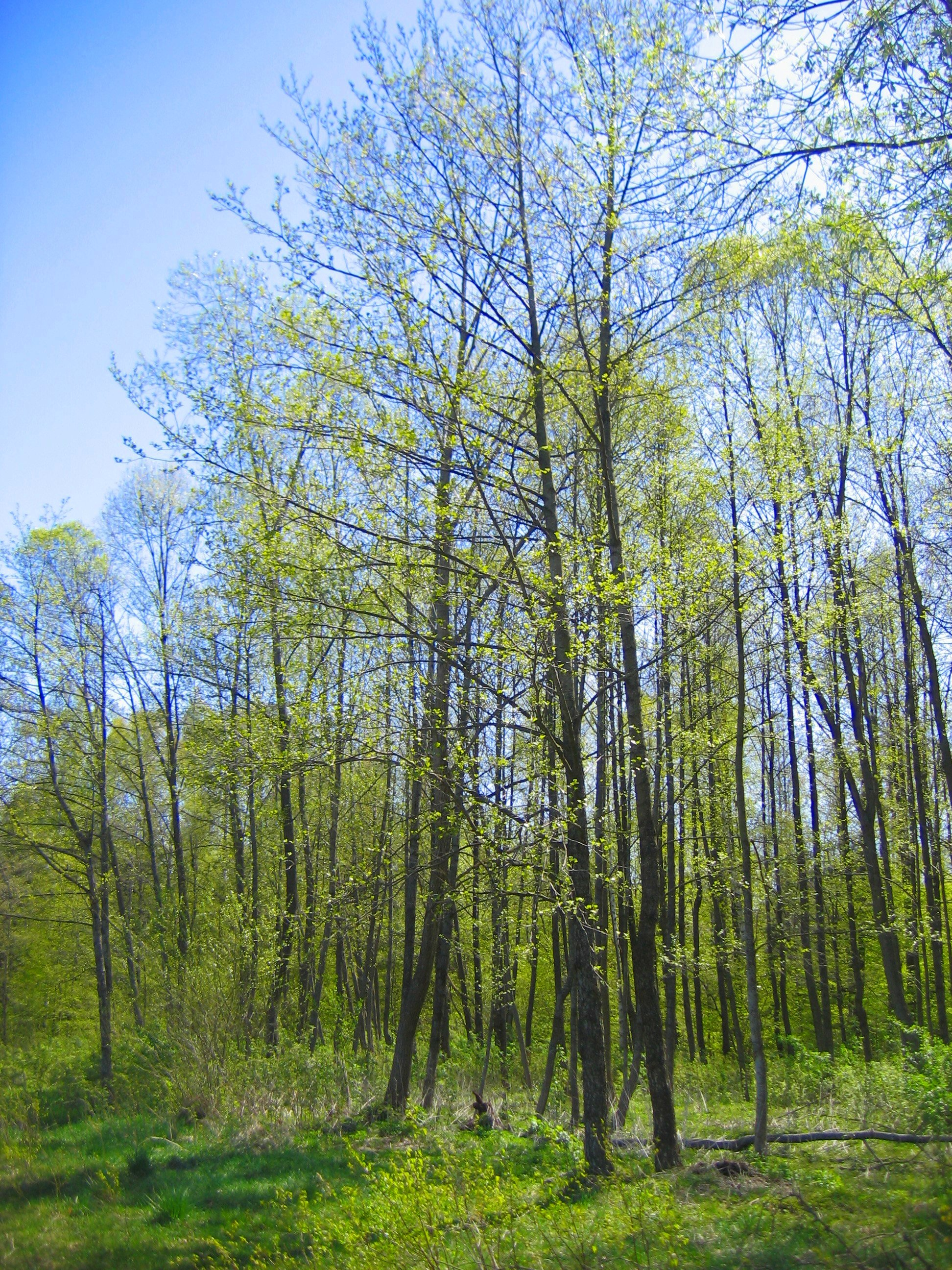 Black alder (Alnus glutinosa), Białowieża Forest, Poland.